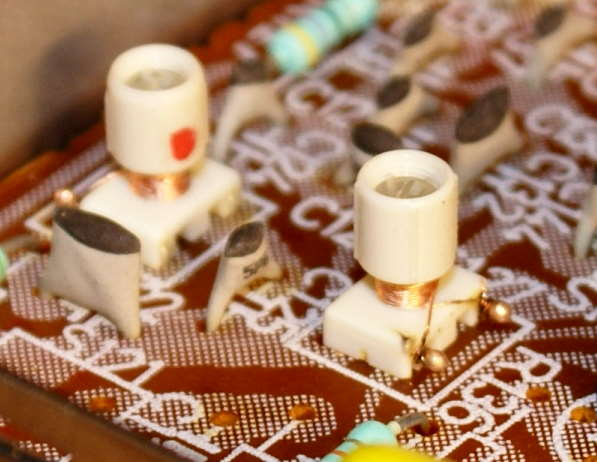 Balancing coils in a 1981 Phillips television set